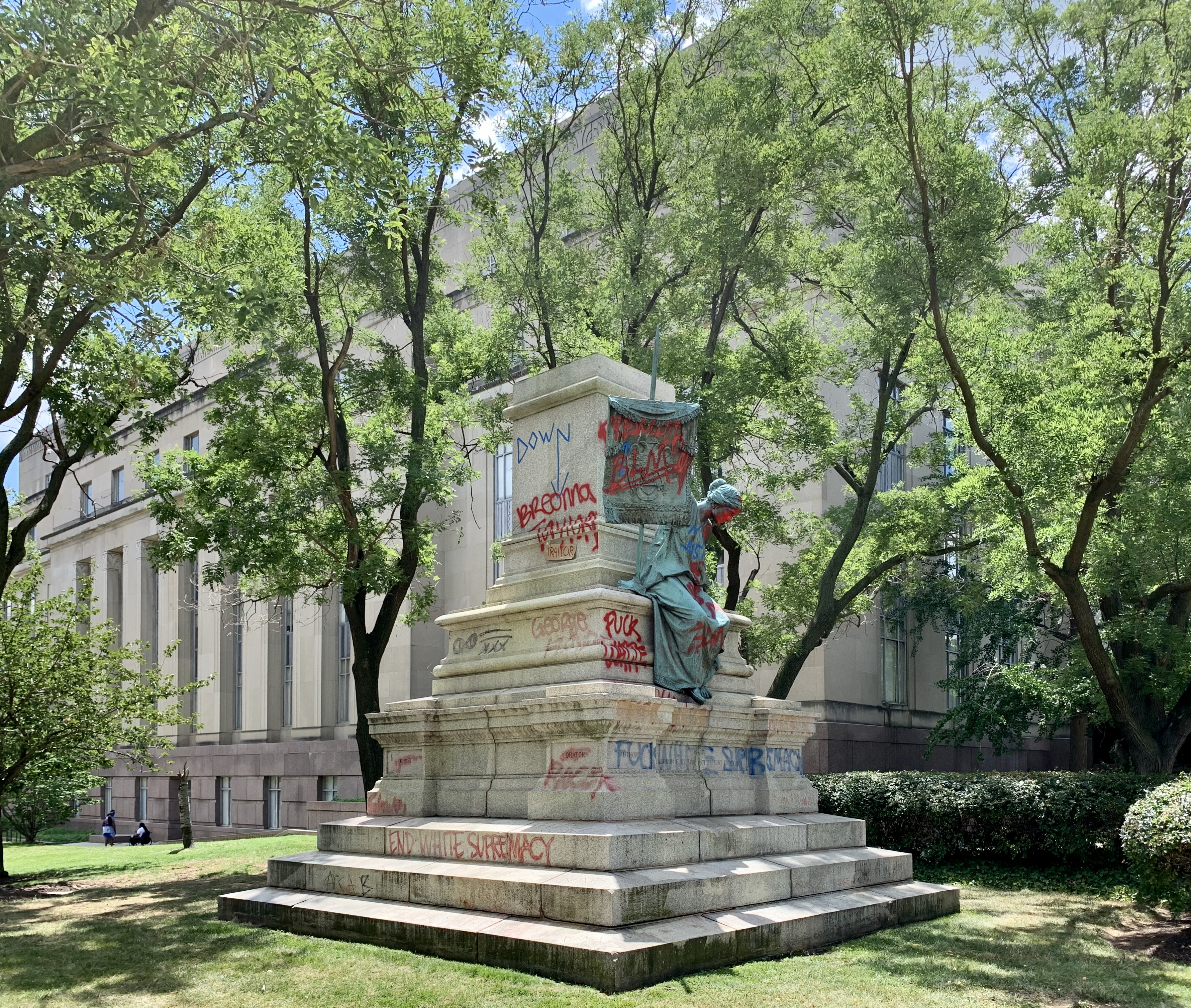 Vandalism to the Statue of Albert Pike following the George Floyd protests.